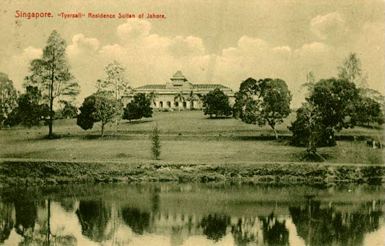 Istana Tyersall, the Singapore home of Sultan Abu Bakar of Johore from 1892 until it burned down on 10 September 1905. It has long been abandoned and hidden by jungle and is often confused today with the nearby Woodneuk Palace which is now a picturesque ruin.